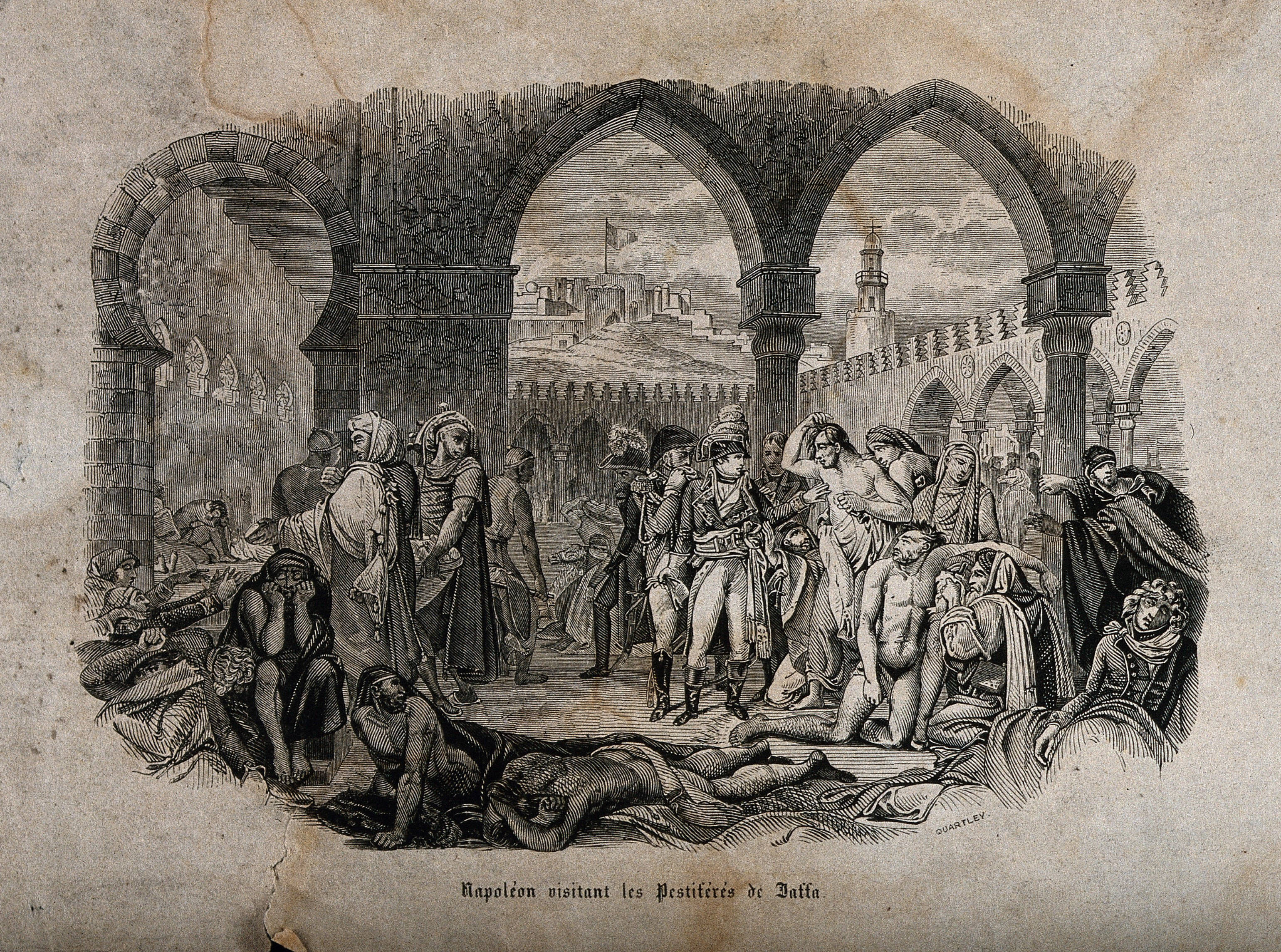 Napoleon Bonaparte visiting plague-stricken soldiers at Jaffa in 1799. Wood engraving by J. Quartley after A.J. Gros, 1804. Iconographic Collections Keywords: John Quartley; Napoléon I; Plague; Antoine-Jean Gros; napoleon bonaparte